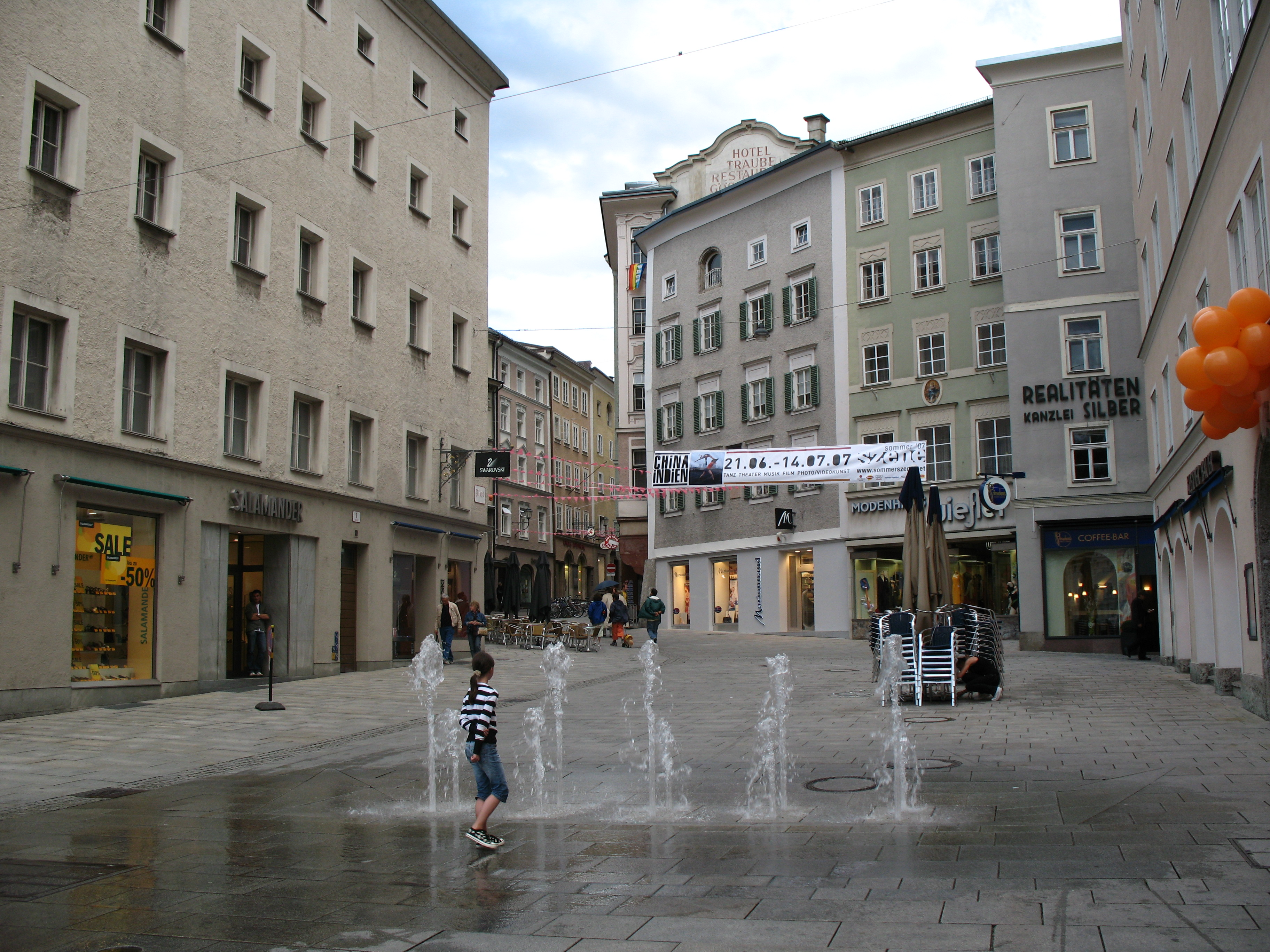 Platzl, Salzburg, Austria - OpenStreetMap(Info)